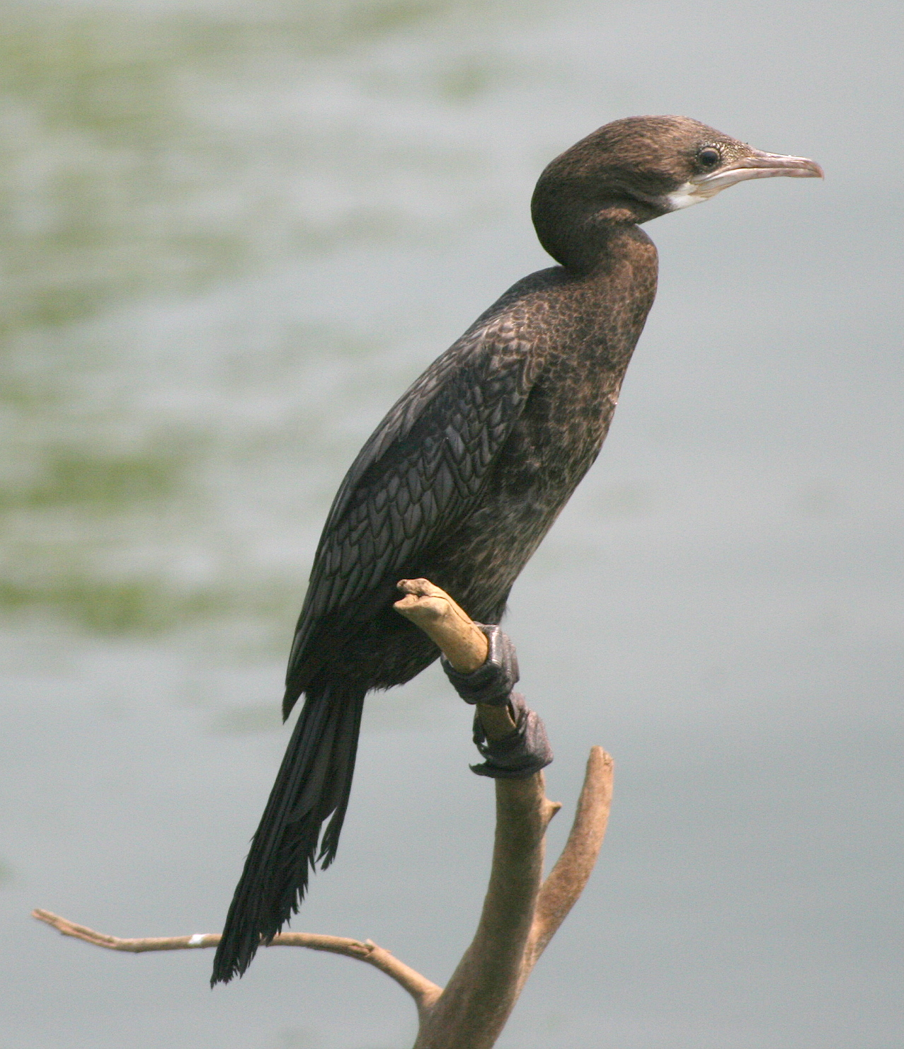 A little cormorant (Microcarbo niger).